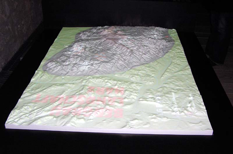 Solid Terrain Model of the Harz mountains (Zisterzienser Museum Kloster Walkenried, Germany)